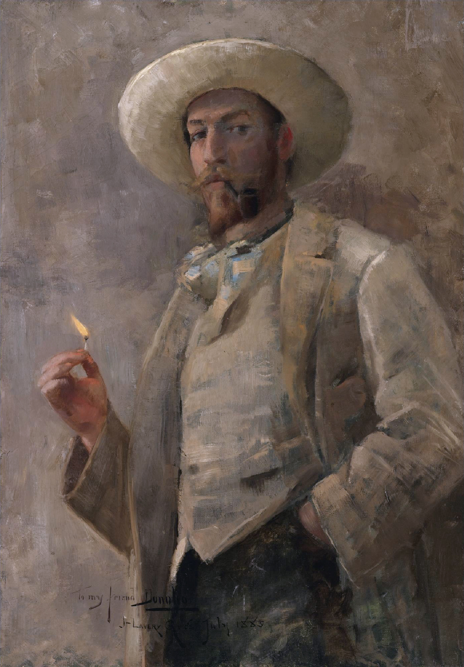 Gaines Ruger Donoho oil on canvas 65 x 45.5 cm signed l.l.: To my friend Donoho / J Lavery Gres July 1883